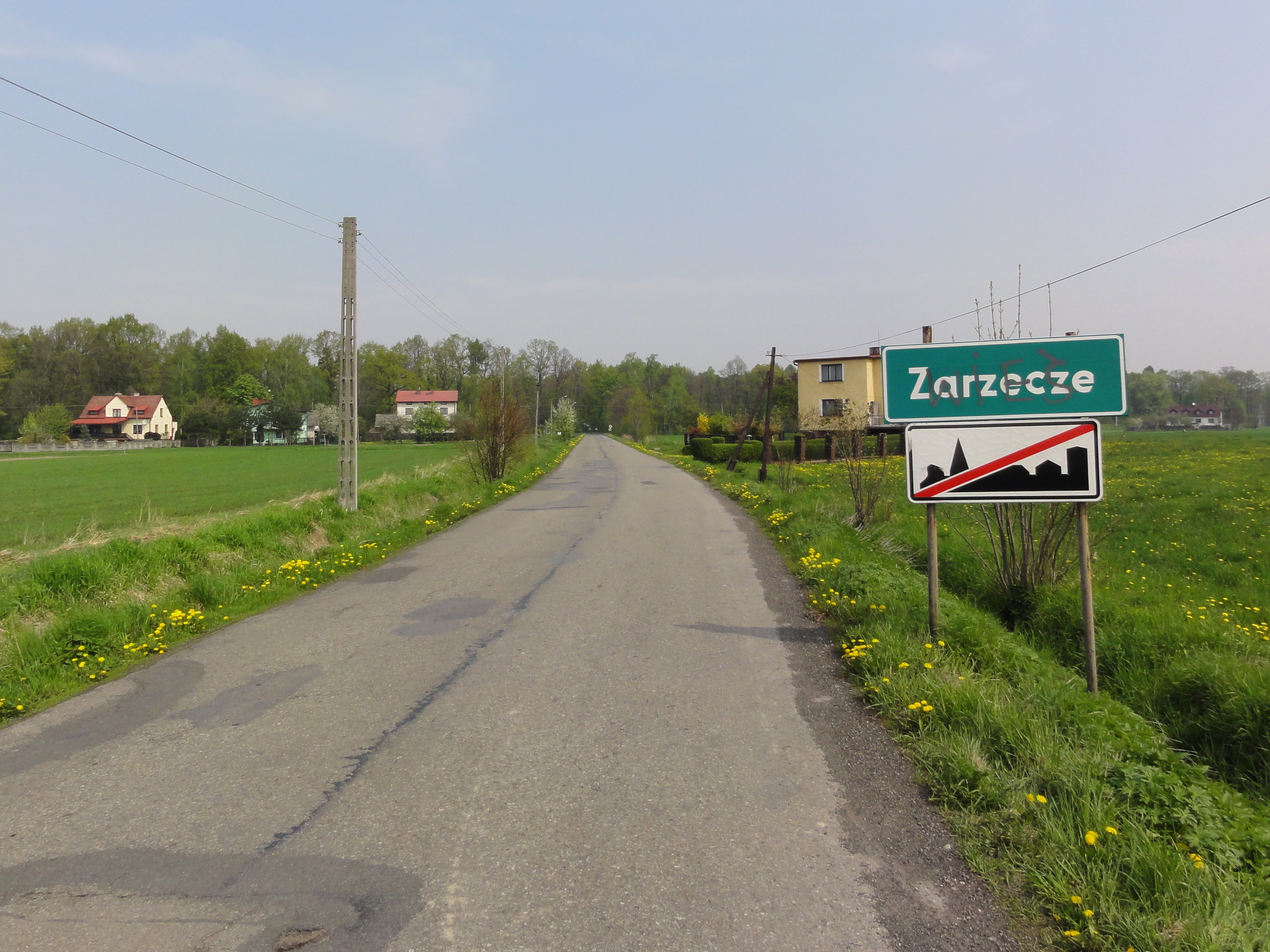 Entrance to Zarzecze from Chybie